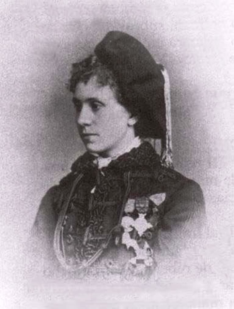 Infanta Maria das Neves of Portugal